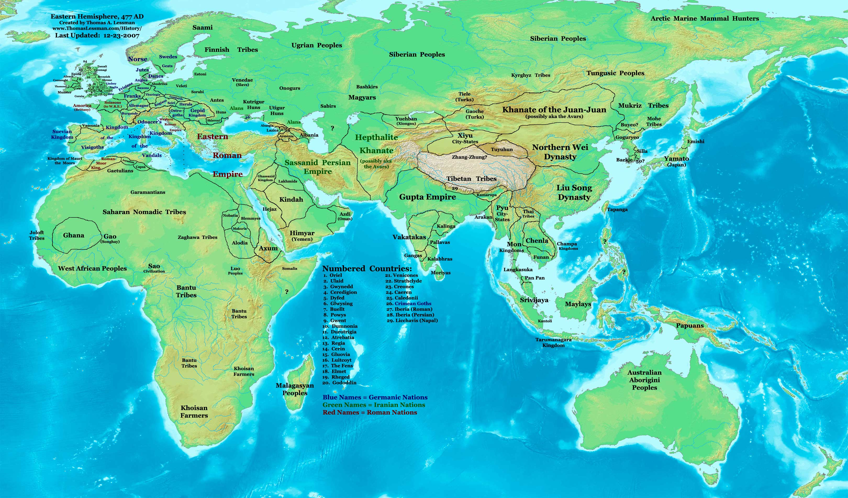 Eastern Hemisphere in 477 AD.